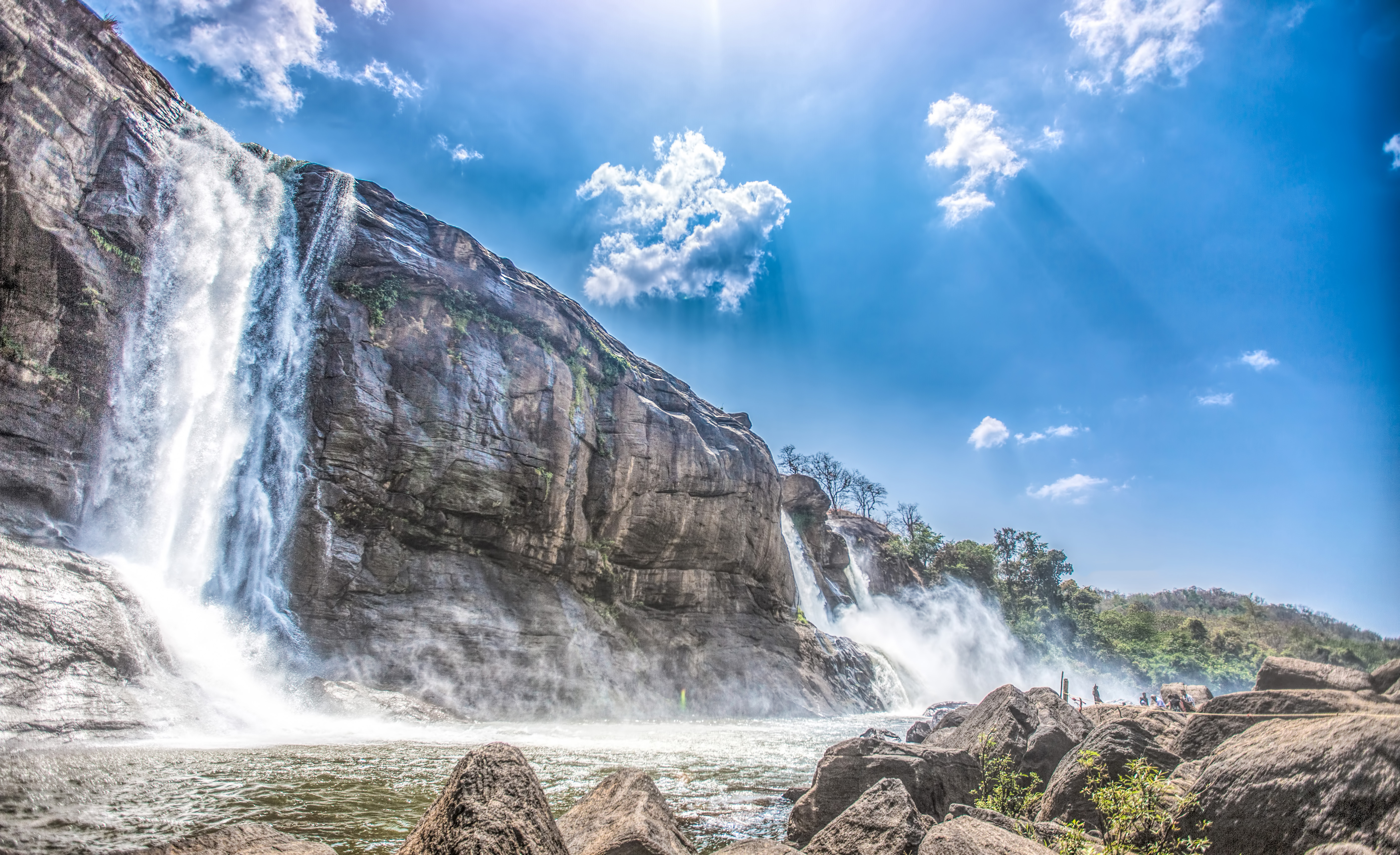 The Raw Power of Nature